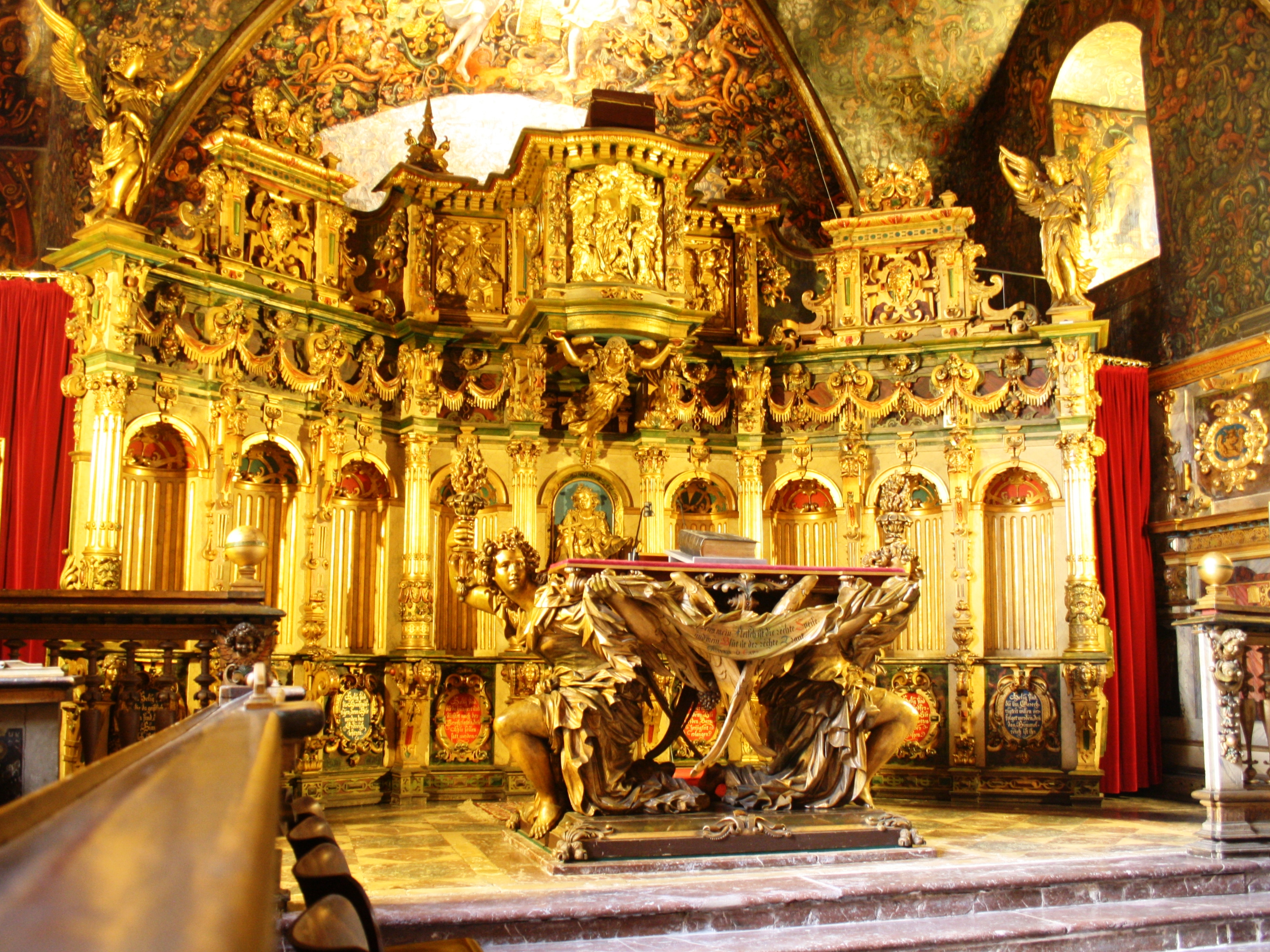 Castle in Bückeburg, Germany. Chapel.